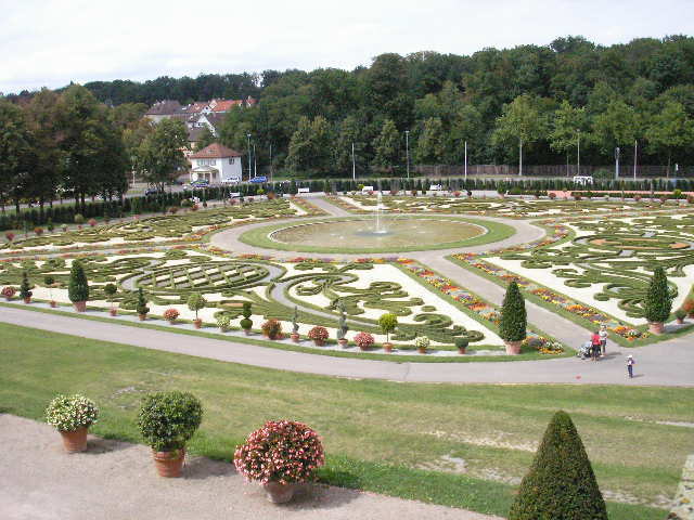 Baroque Garden at Schloss Ludwigsburg with parterre — in Ludwigsburg, Germany.